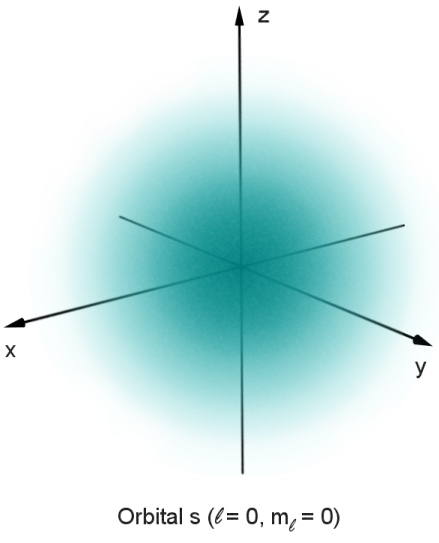 Illustration of the ground state s orbital of a Hydrogen atom. Based upon the Orbital s 1.png image. The image was rendered using Bryce and Paint Shop Pro.